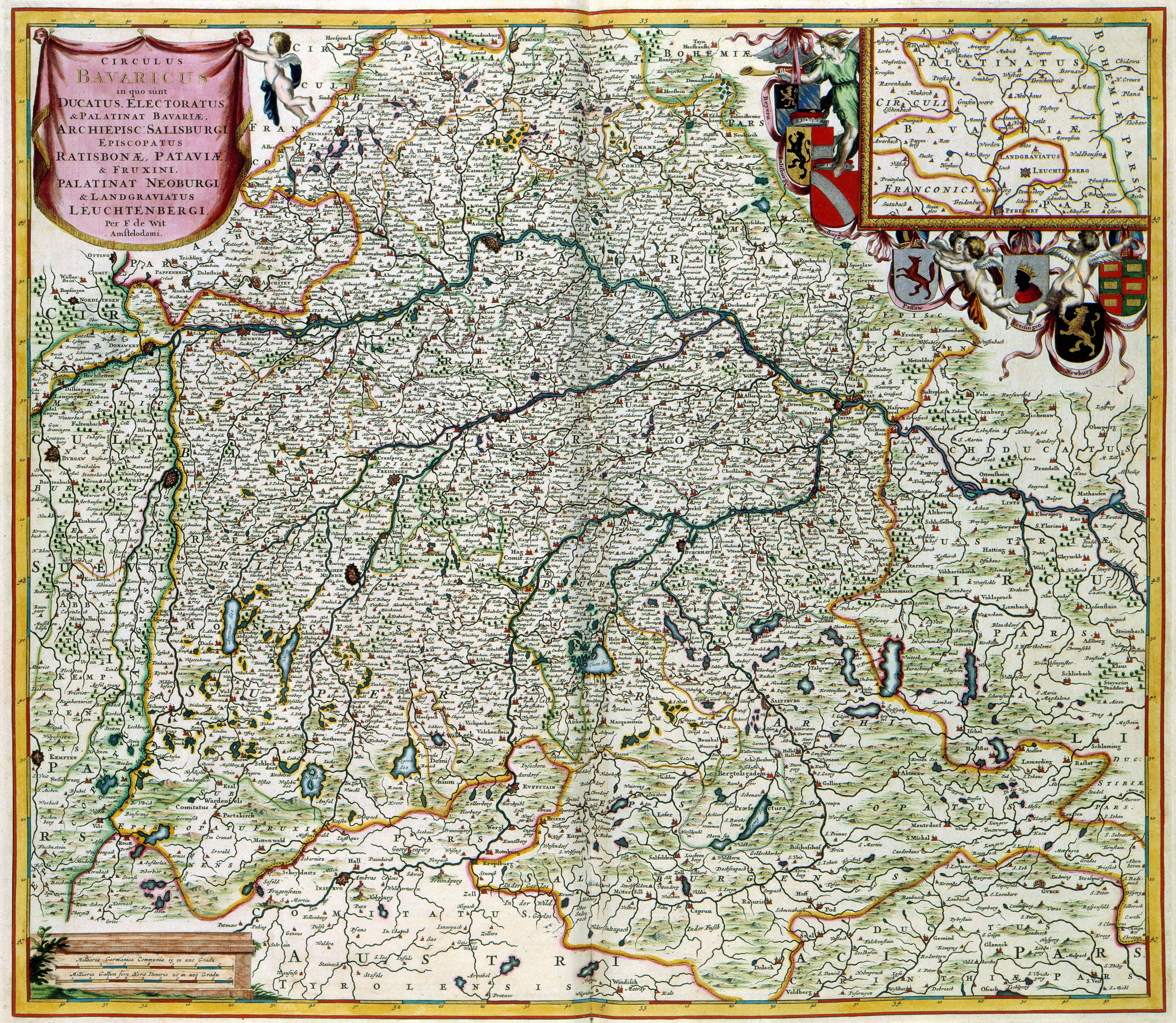 The map of the Electorate Bayern was published before the year 1689 by Frederik de Wit (1630-1706). From 1689, he mentioned his privileges on each map. The source of this map is the topographical survey of Bayern conducted by Philipp Appian (1531-1689) between 1554 and 1563. The results of this survey, 24 detailed maps of the area, were published in 1568. These so-called Bayerische Landtafeln continued to be used as the basis for many maps of Bayern for more than 200 years.